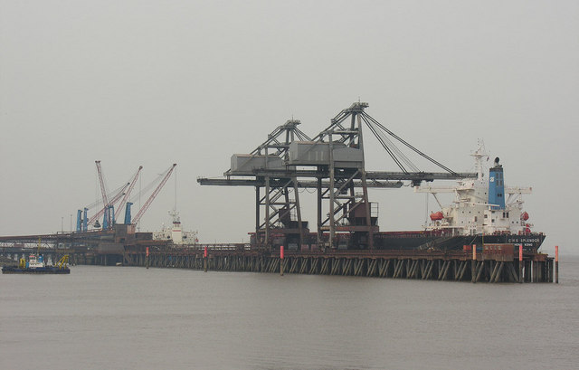 Immingham Bulk Terminals. Upstream of the dock entrance lies the Immingham Bulk Terminal with two unloading gantries, mainly handling iron ore for the Scunthorpe steel works of Corus. Beyond that, the two berths of the Humber International Terminal are equipped with grabbing cranes and are mainly used for coal imports for the many coal-fired power stations in the region.